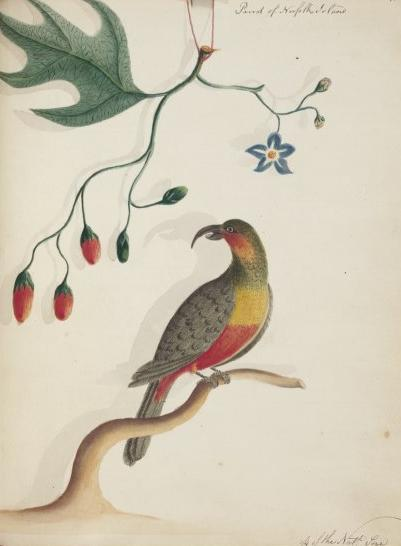 Entitled "Parrot of Norfolk Island" this shows Norfolk Island Kākā (Nestor productus)(2686055) Birds & flowers of New South Wales drawn on the spot in 1788, '89 & '90 by John Hunter (1737-1821).